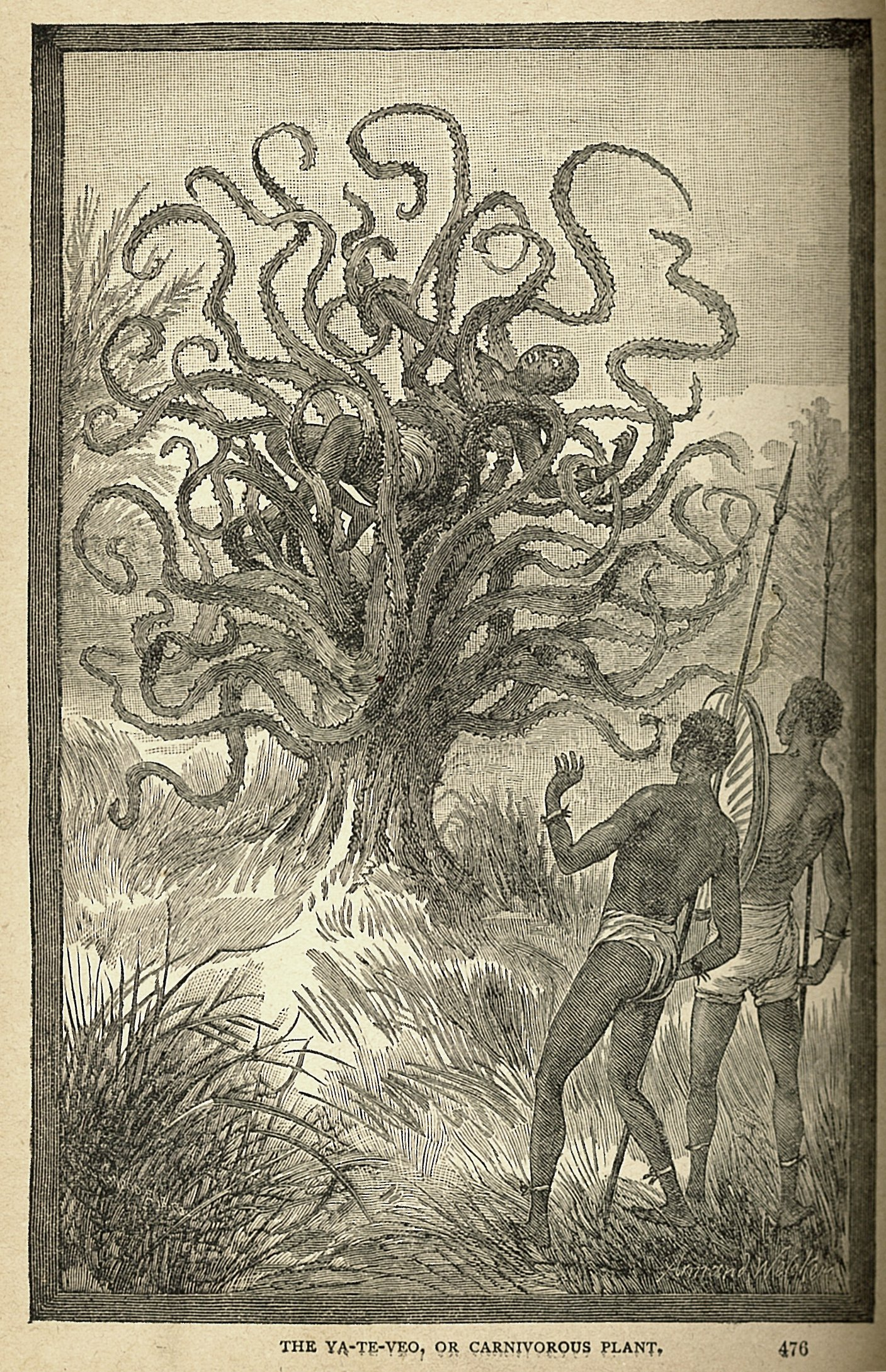 "The Ya-Te-Veo, or Man-Eating Plant" (from "List of Illustrations", p. 5)